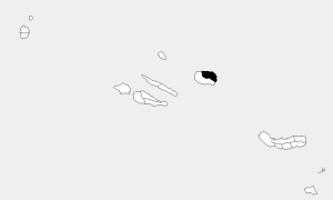 Map of the Azores highlighting Praia da Vitória.